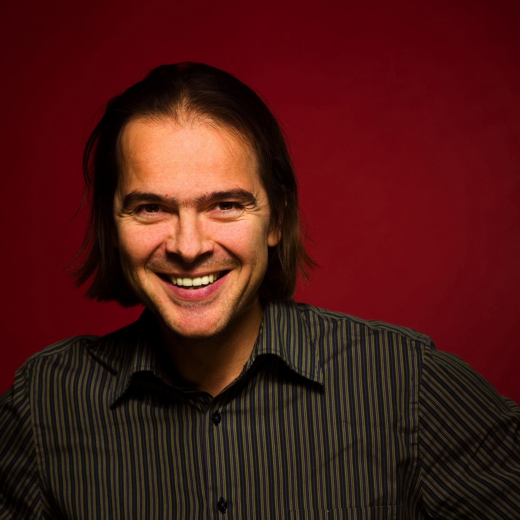 Portrait of Lukas Beck